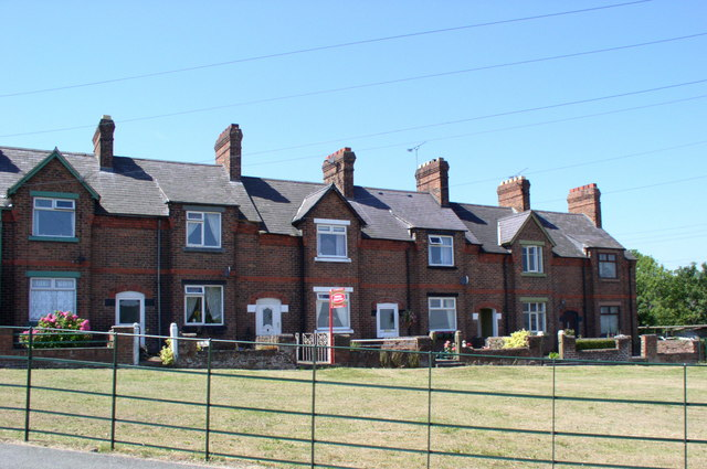 Victorian terrace. A row of terraced houses, on the hill above Oakenholt. They face the Dee estuary.